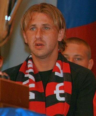 Nastja Čeh